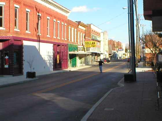 Downtown Horse Cave, January 2006.